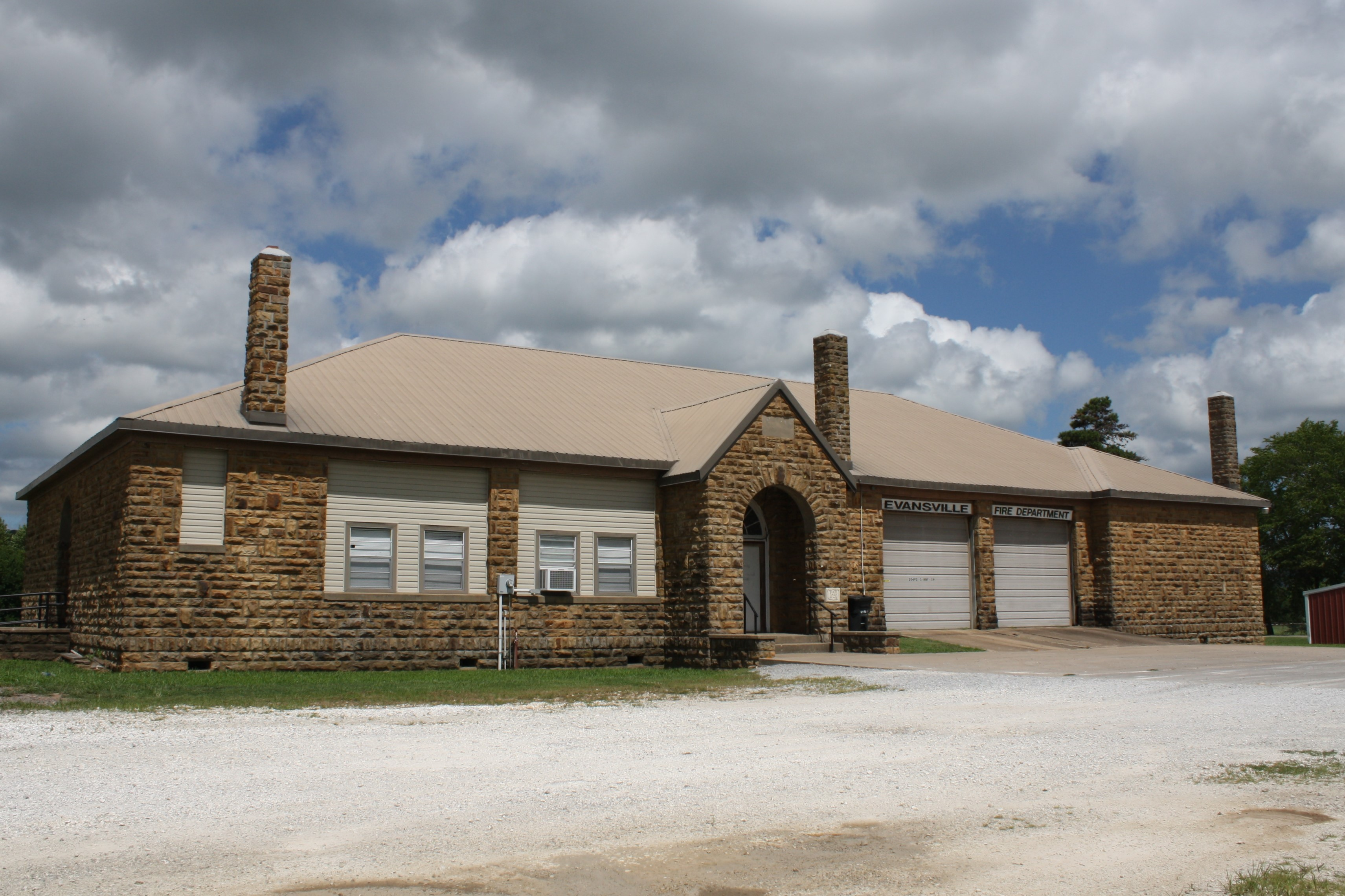 Evansville Fire House and Community Center in Evansville, Arkansas